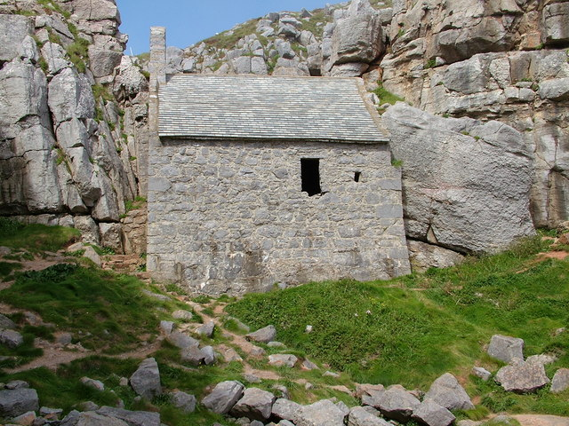 St Govans' chapel